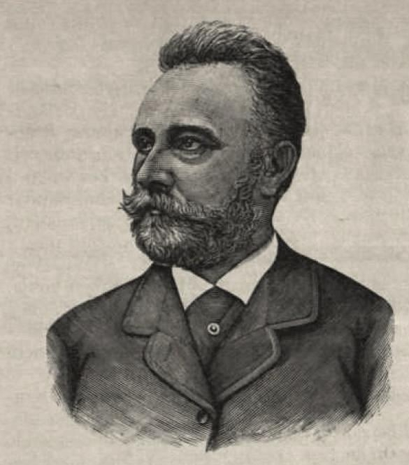 István Apáthy 1829–1889